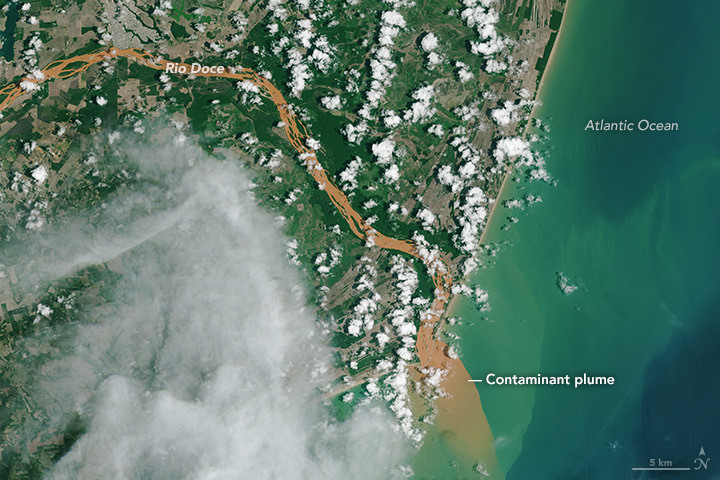 NASA Earth Observatory image by Joshua Stevens, using Landsat data from the U.S. Geological Survey. Caption by Adam Voiland.